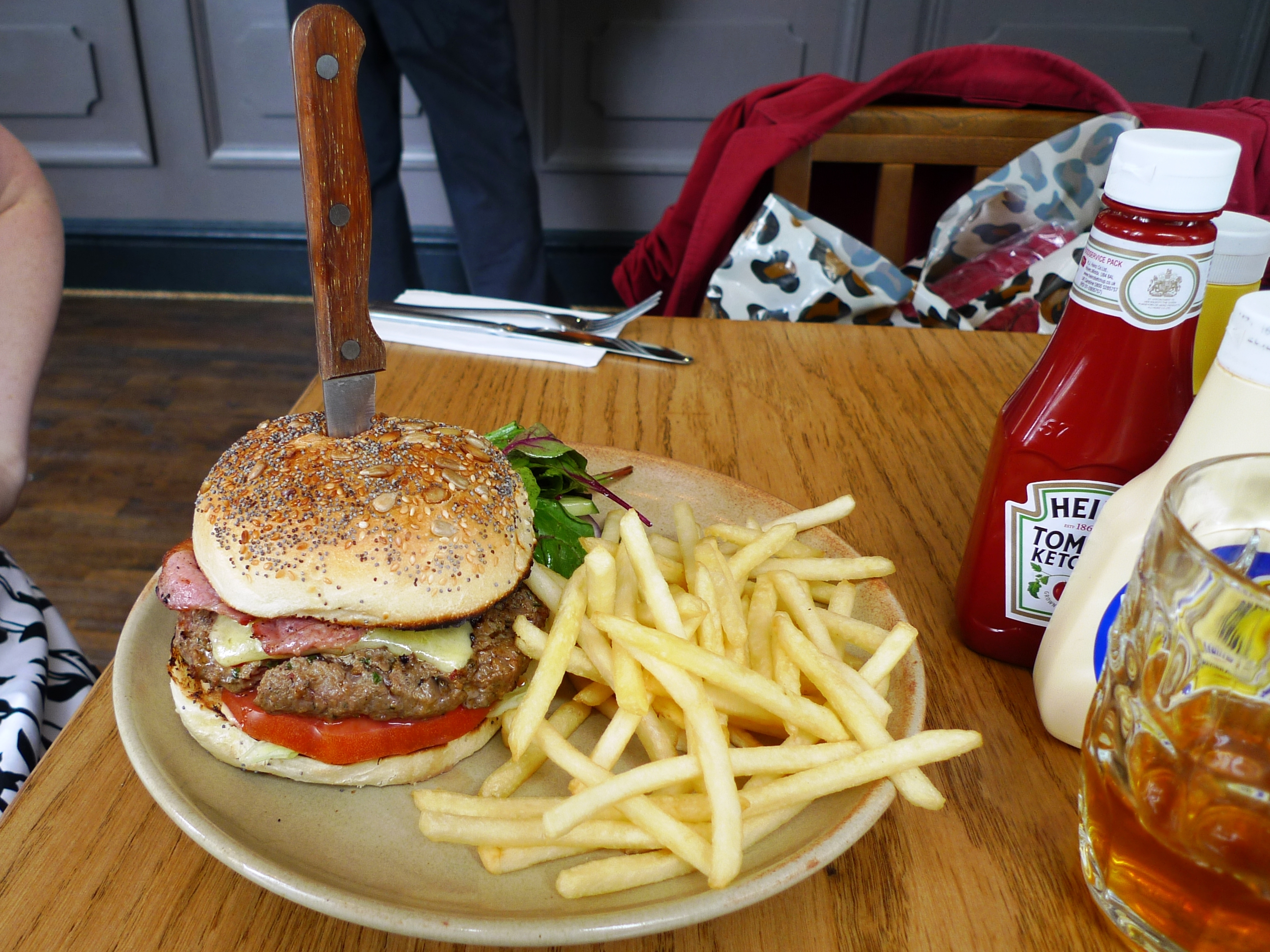 The house burger and fries. (View of inside of burger.) At The Brownswood, Green Lanes.